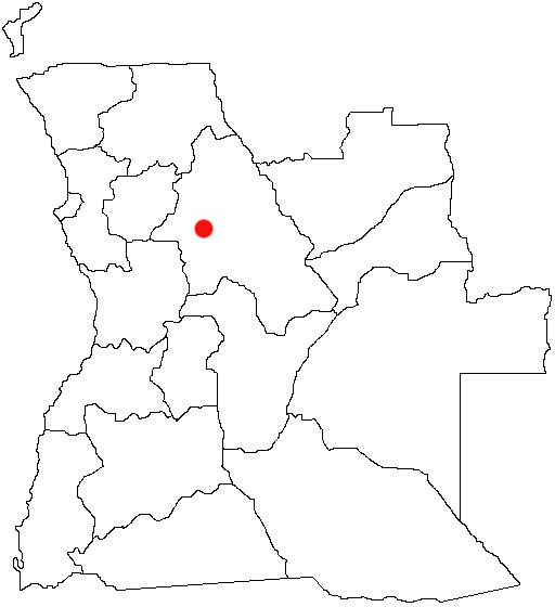 Malanje, Angola Location Map; created with the GIMP. Made by User:Acntx.